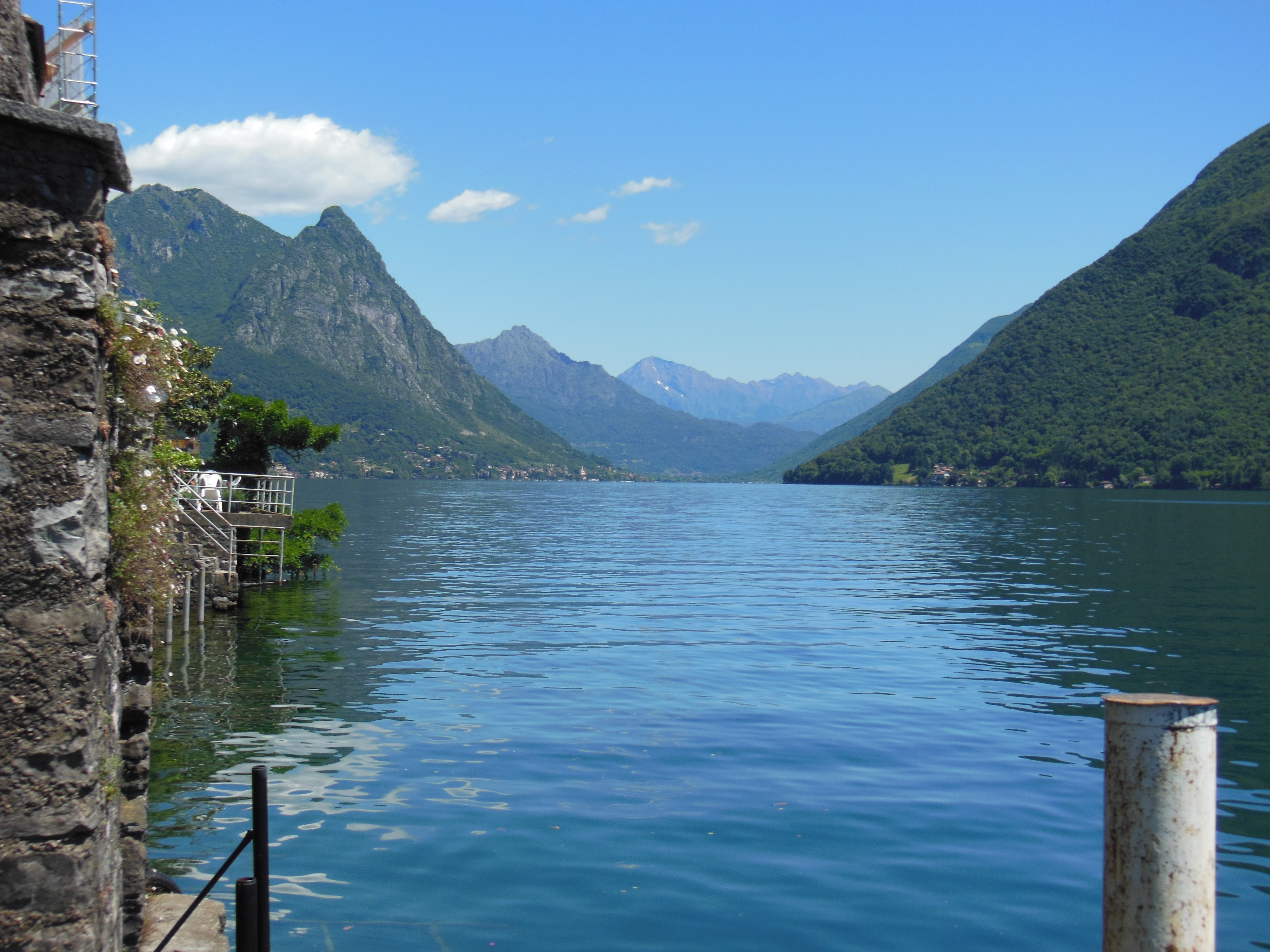 The waterfront of the village of Gandria, on Lake Lugano in Switzerland, looking east, with Porlezza in the distance. For more information, see the Wikipedia articles Gandria, Lake Lugano and Porlezza.